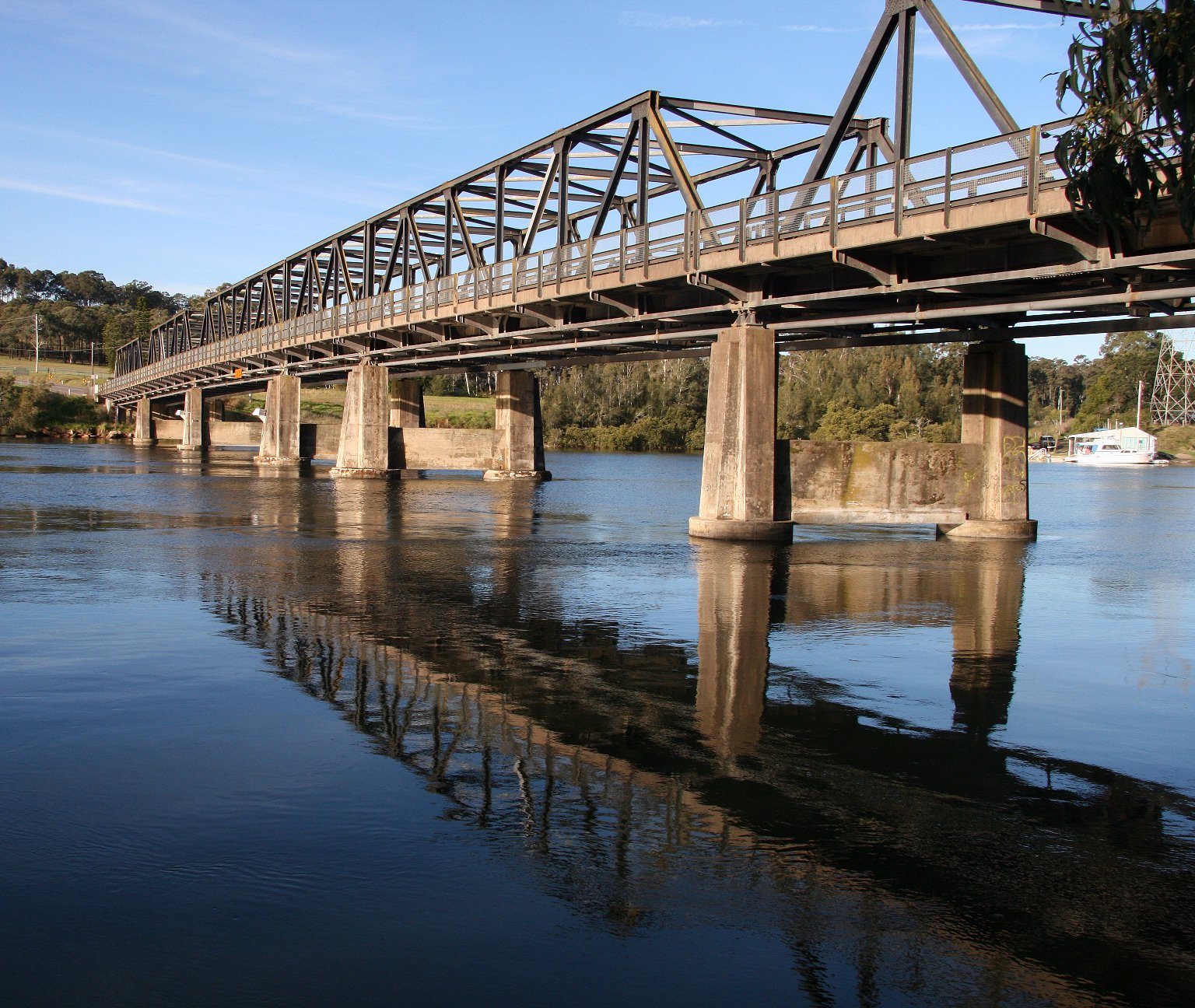 Karuah Bridge over Karuah River, from the south side (Karuah)